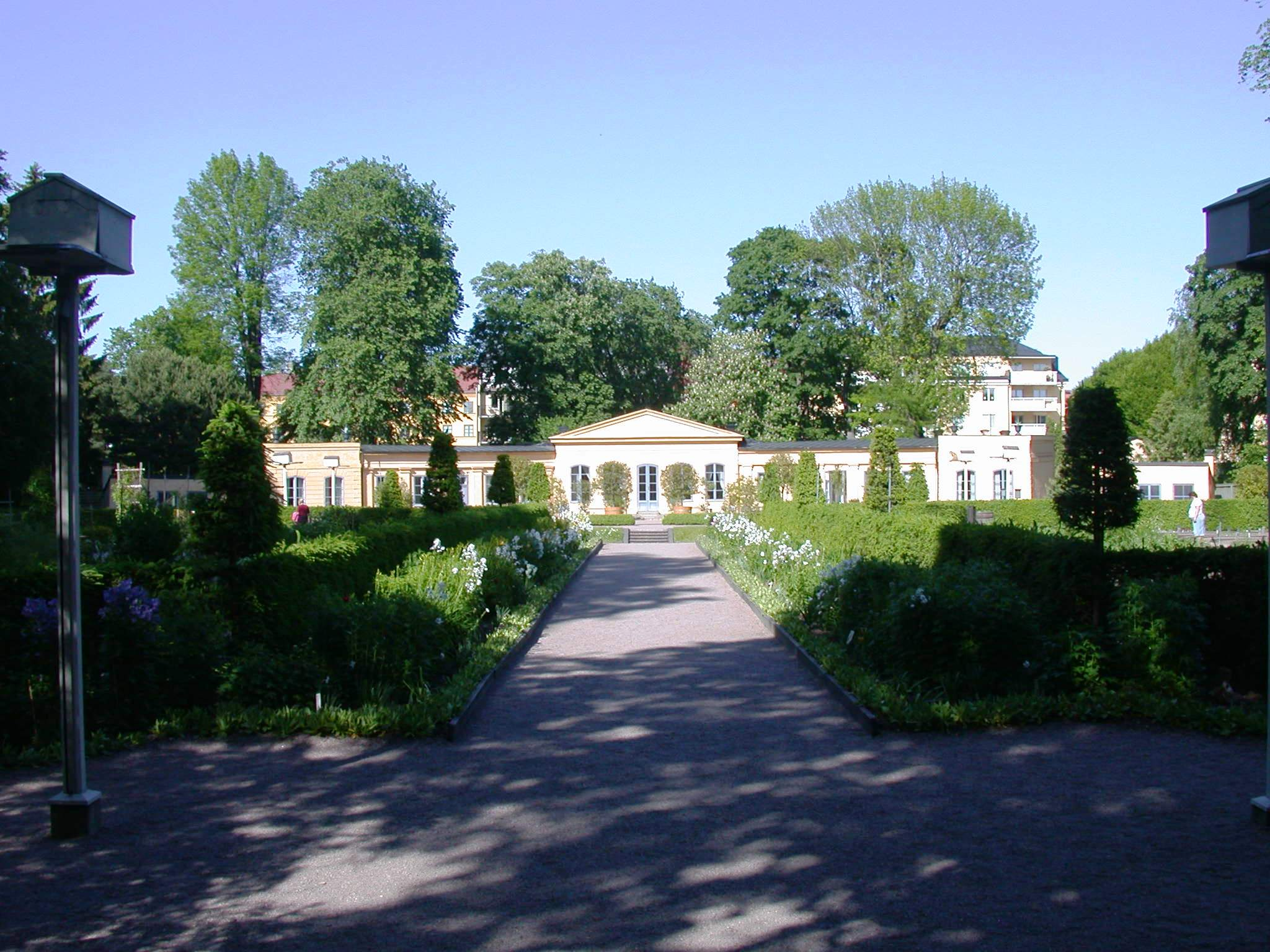 Linnaean Garden, Uppsala, Sweden, Linnaean Garden, Uppsala, Sweden.